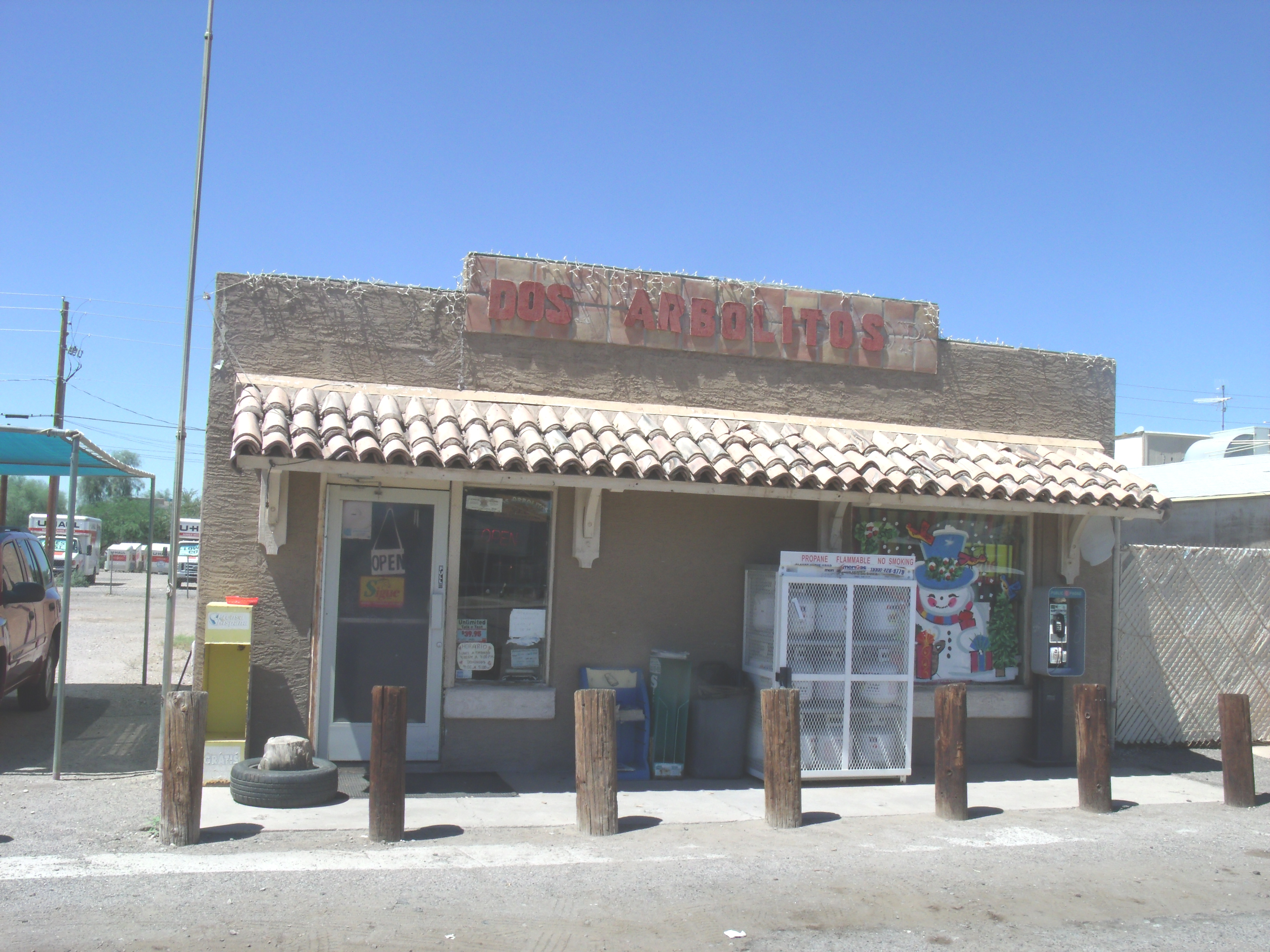 This historic building, which was built in 1913, once served as the first Post Office of the town of Queen Creek, Arizona. It is located at 22030 S. Rittenhouse Road